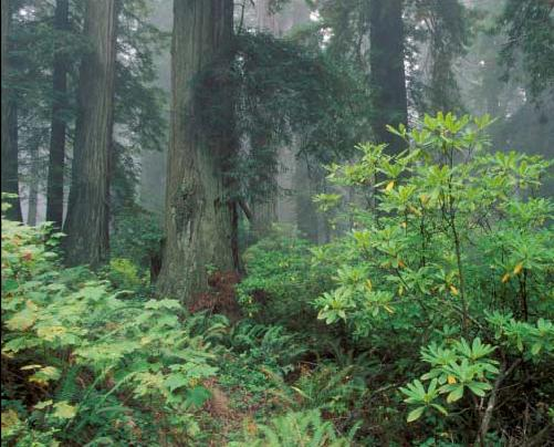 Glade in Headwaters Forest Reserve